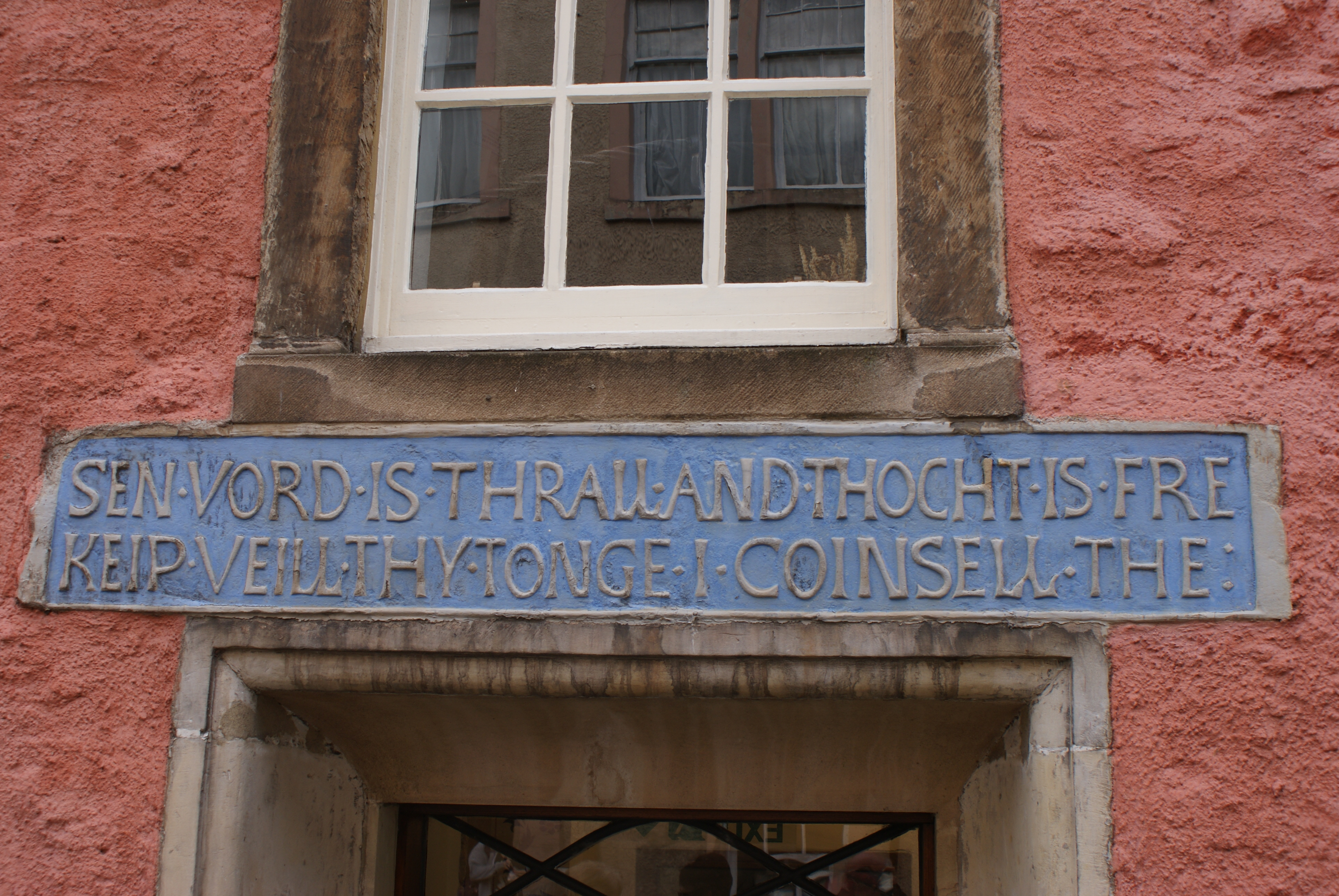 Detail of front of Abbot House, Dunfermline. The motto reads 'Sen vord is thrall and thocht is fre : Keip veill thy tonge I coinsell the' (Since word is enthrallment and thought is freedom : keep well thy tongue I counsel thee).